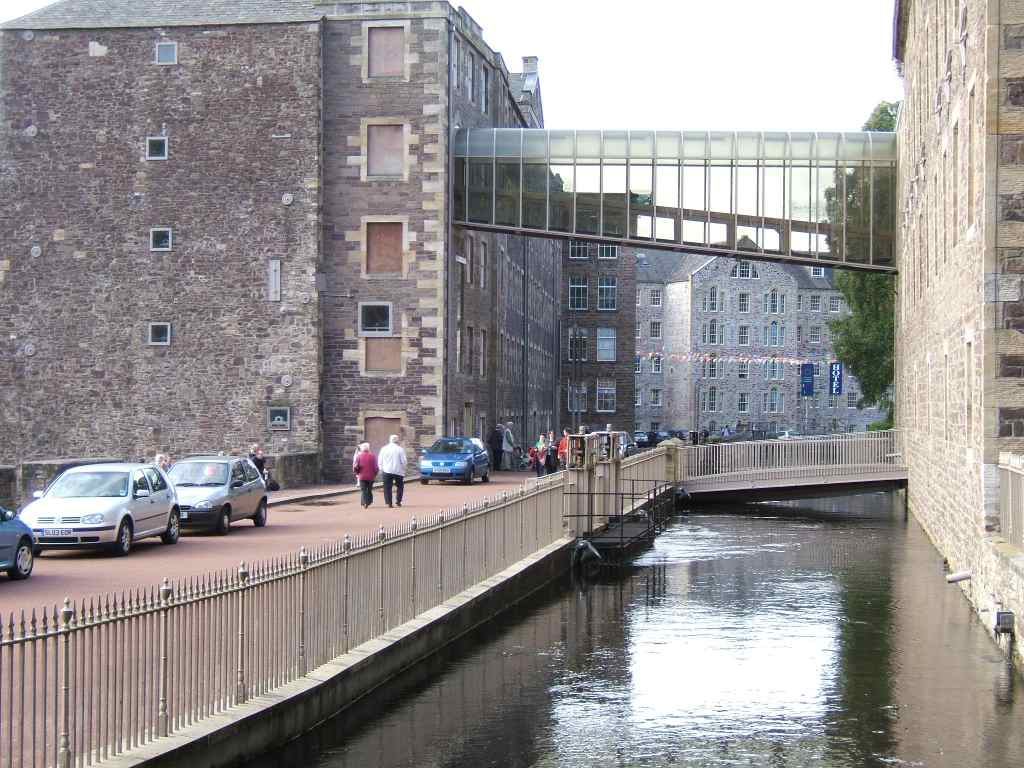 New Lanark World Heritage village in Scotland. View of New Lanark Mills and lade. * Source: self made * Author: R Pollack, 18th August 2005